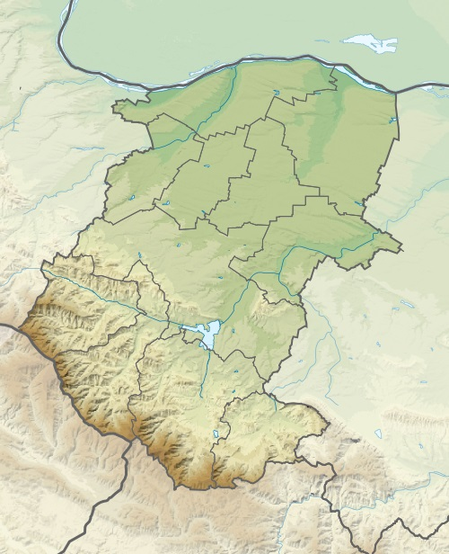 Physical Location map Montana province, Bulgaria. Geographic limits of the map